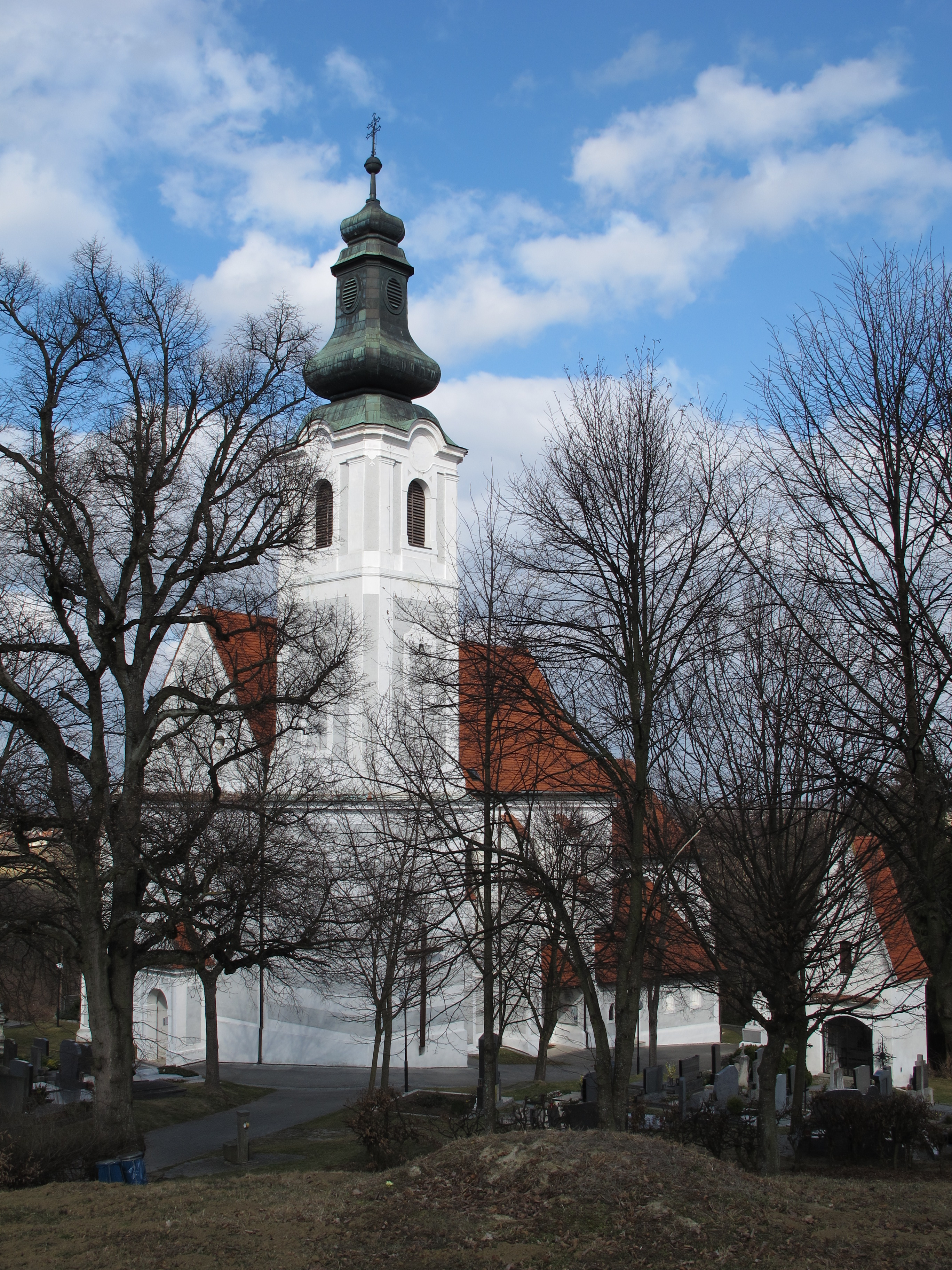 Parish church and pilgrimage church Maria Weinberg